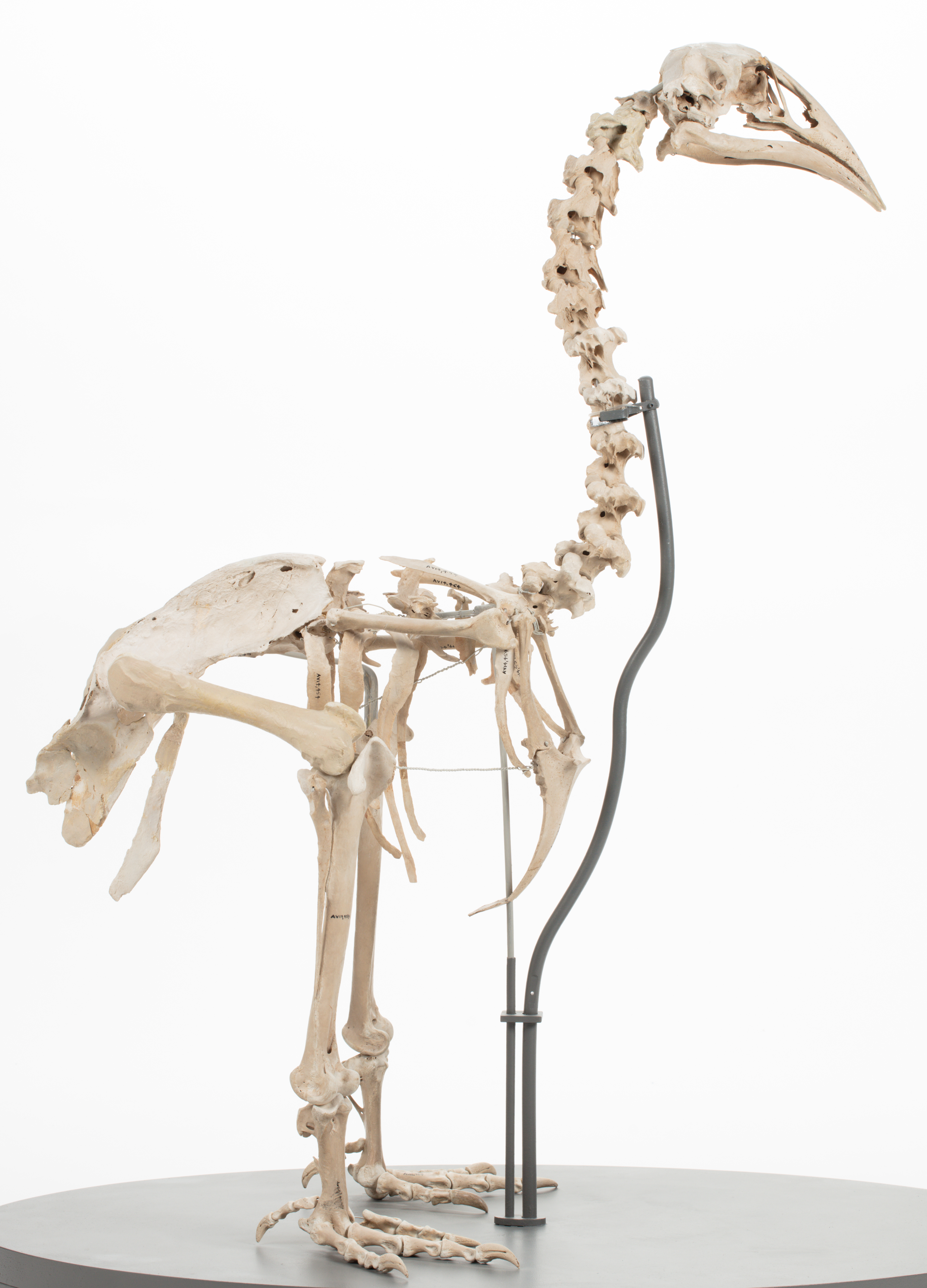 Aptornis defossor, Pyramid Valley, North Canterbury: fossil bones